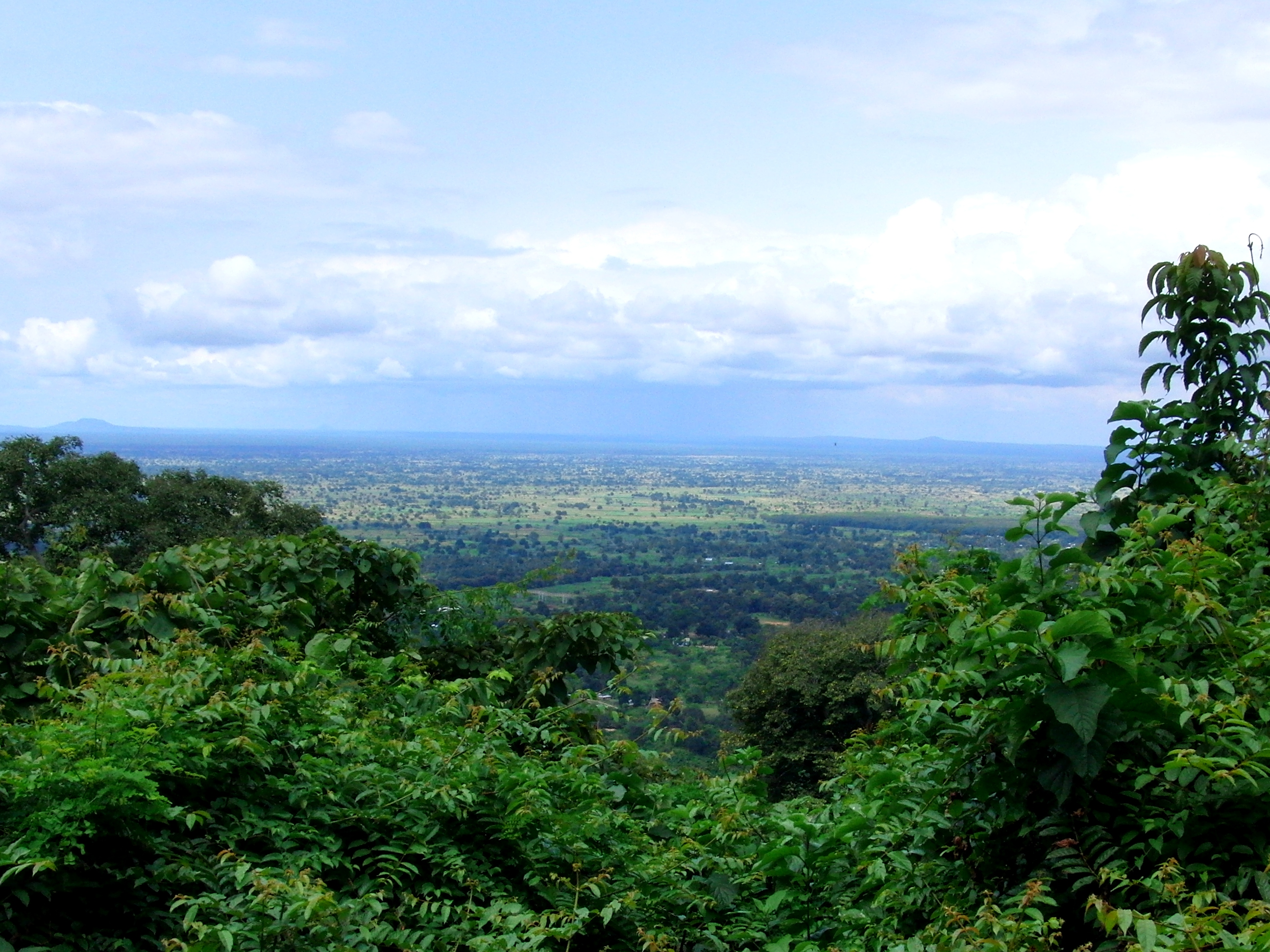 View from the top of the Udzungwa Mountains National Park, Tanzania.